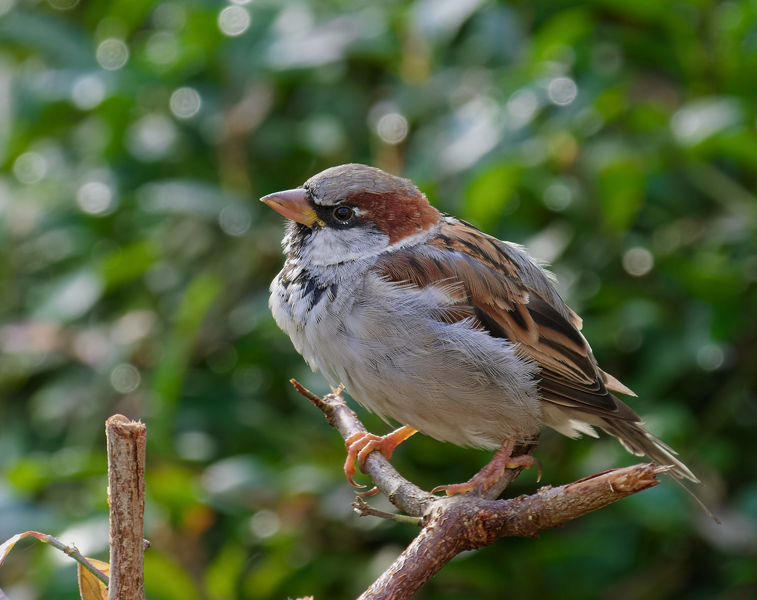 House sparrow - Passer domesticus, male. Taken in Mannheim-Vogelstang, Baden-Württemberg, Germany.